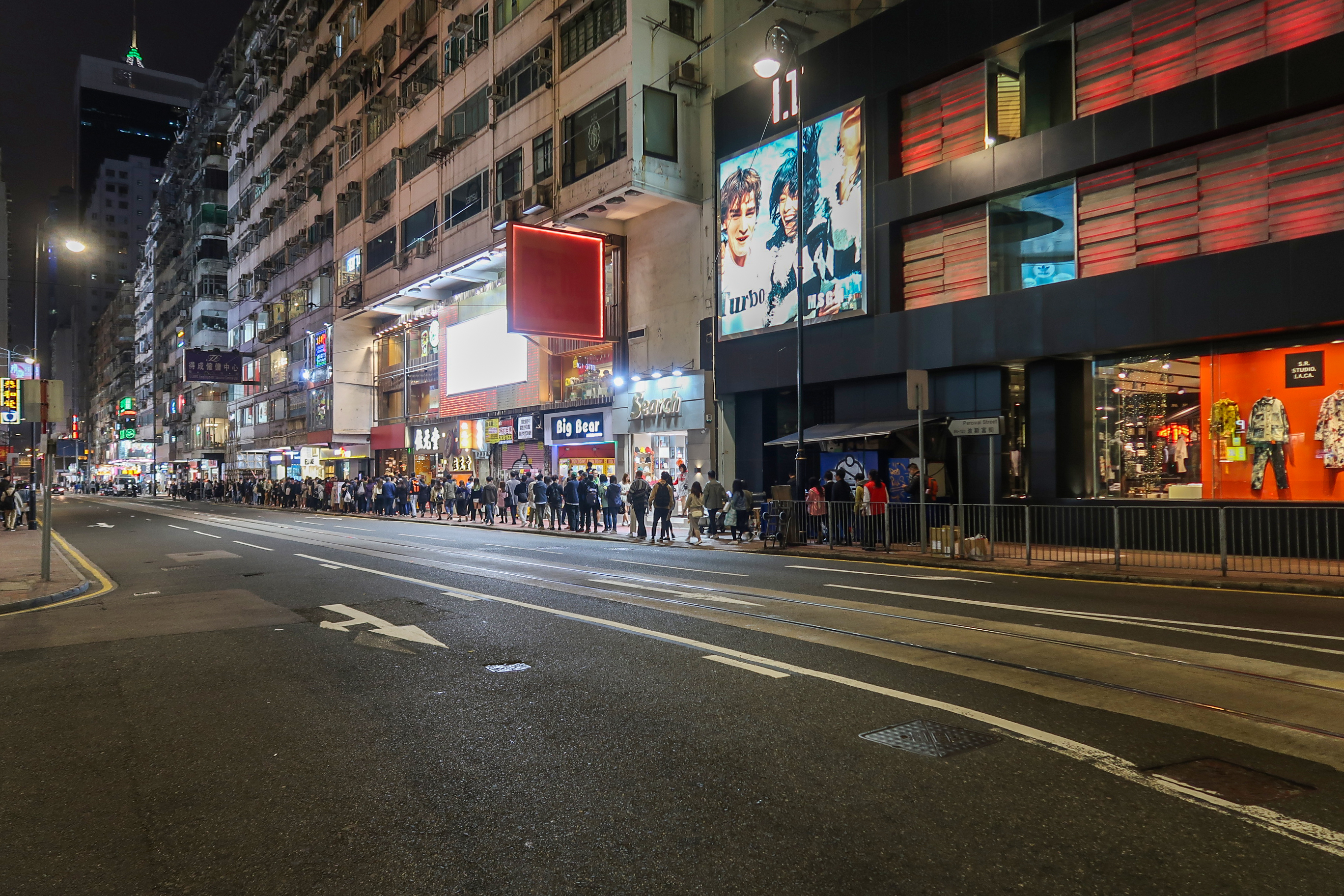 Percival Street